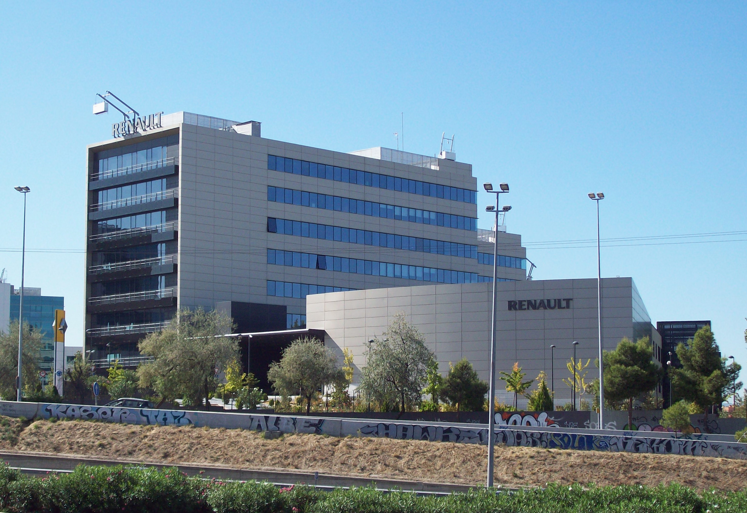 View of Renault offices in Madrid (Spain).